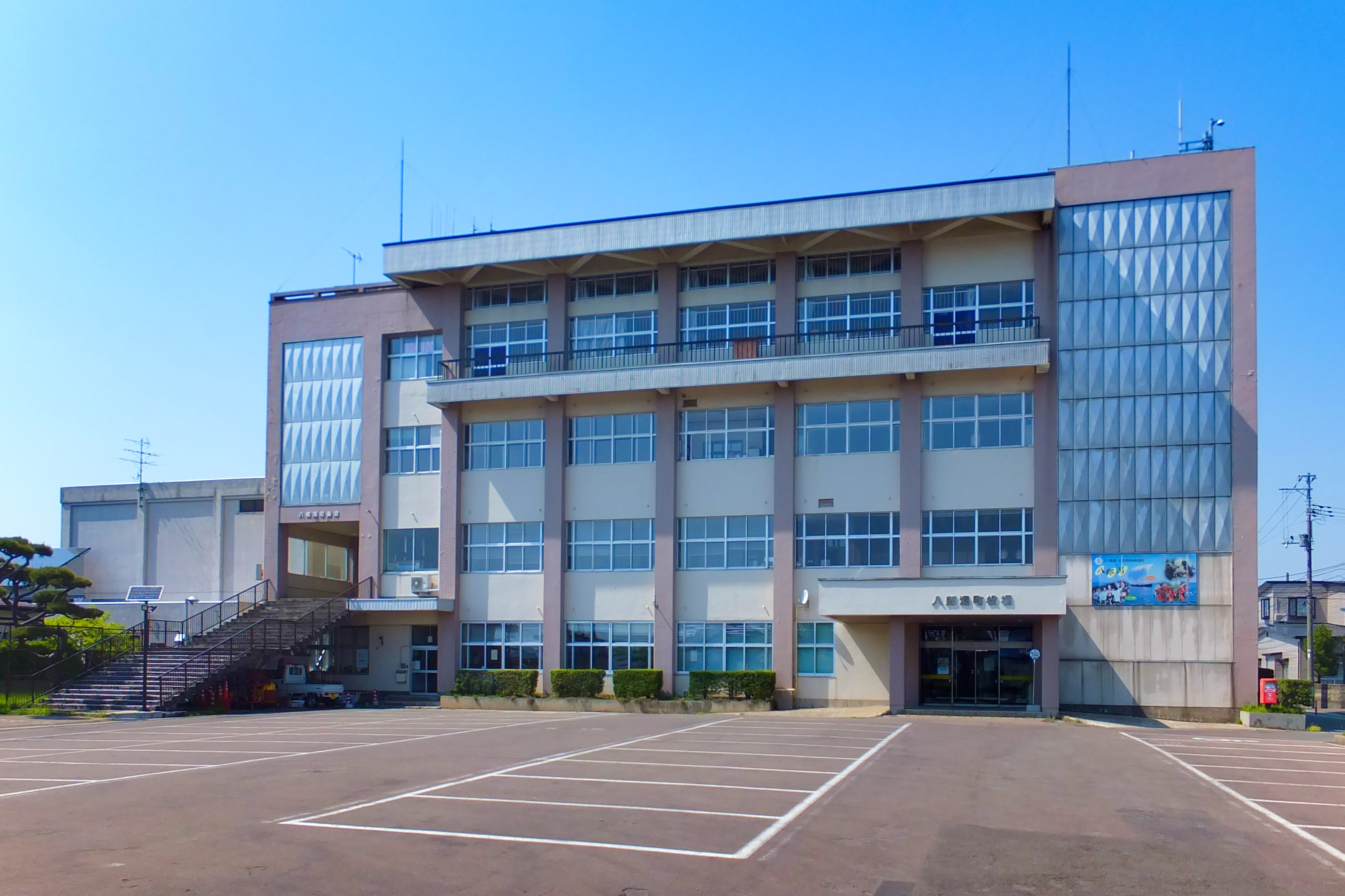 Hachirogata Town Hall of Akita, Japan